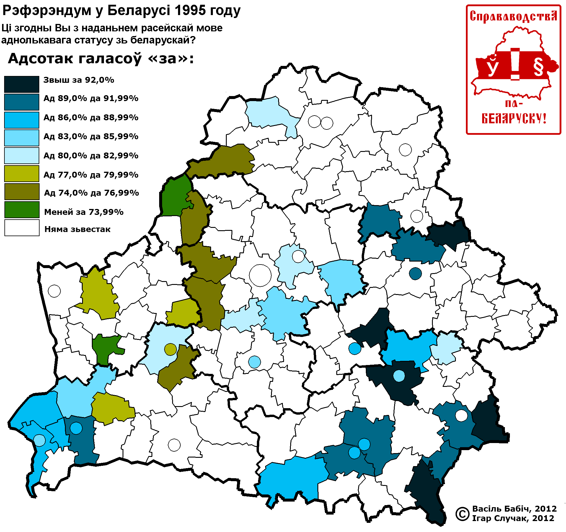 map of Belarus showing some of voting results by region at 1995 referendum in Belarus